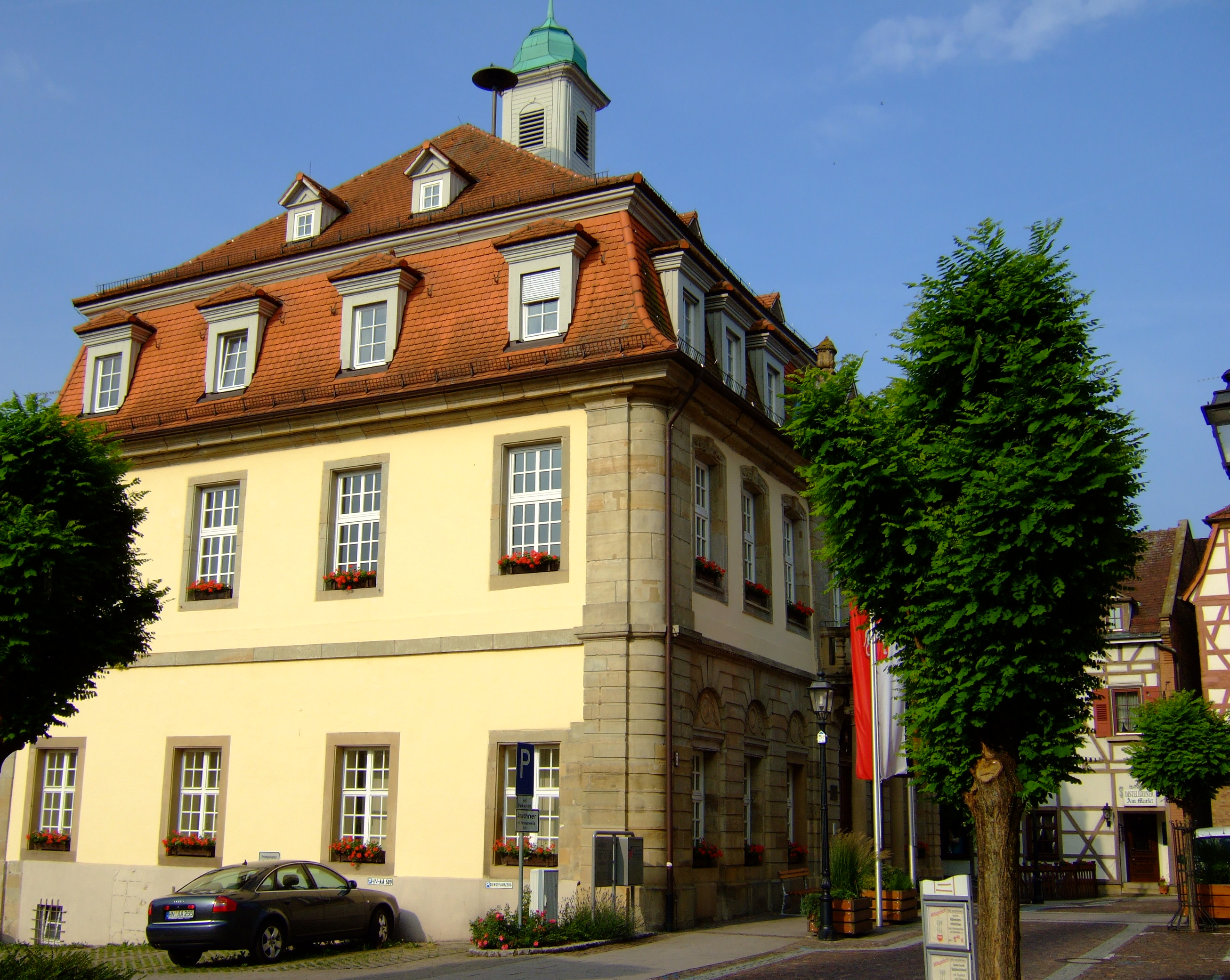 Town hall, Brackenheim/Germany, by J. Köhler - 2007